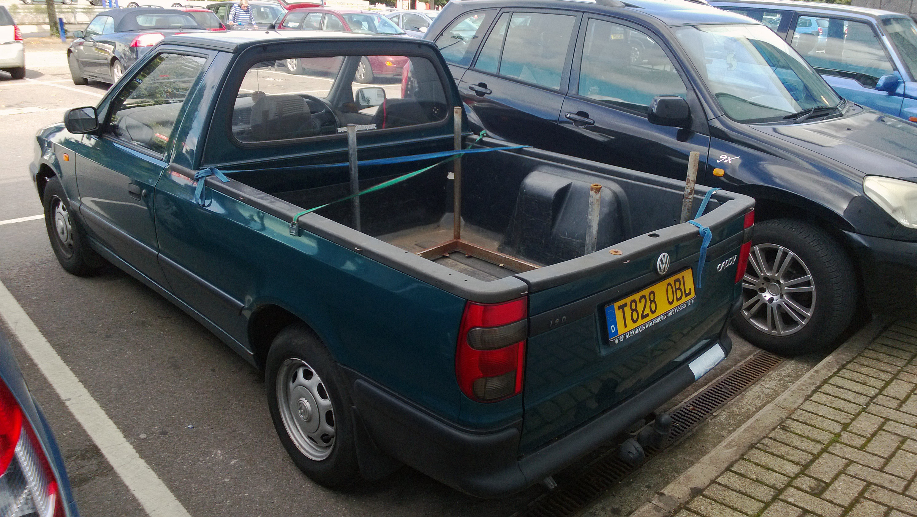 1999 Volkswagen Caddy 1.9D SD. I thought it was a Skoda on foreign plates... Wrong!